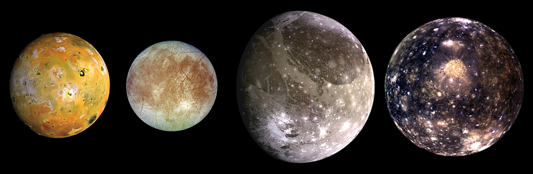 The Galilean moons of Jupiter. From left, they are Io, Europa, Ganymede, and Callisto. This composite includes the four largest moons of Jupiter which are known as the Galilean satellites. The Galilean satellites were first seen by the Italian astronomer Galileo Galilei in 1610. Shown from left to right in order of increasing distance from Jupiter, Io is closest, followed by Europa, Ganymede, and Callisto. The order of these satellites from the planet Jupiter helps to explain some of the visible differences among the moons. Io is subject to the strongest tidal stresses from the massive planet. These stresses generate internal heating which is released at the surface and makes Io the most volcanically active body in our solar system. Europa appears to be strongly differentiated with a rock/iron core, an ice layer at its surface, and the potential for local or global zones of water between these layers. Tectonic resurfacing brightens terrain on the less active and partially differentiated moon Ganymede. Callisto, furthest from Jupiter, appears heavily cratered at low resolutions and shows no evidence of internal activity. North is to the top of this composite picture in which these satellites have all been scaled to a common factor of 10 kilometers (6 miles) per picture element. The Solid State Imaging (CCD) system aboard NASA's Galileo spacecraft acquired the Io and Ganymede images in June 1996, the Europa images in September 1996, and the Callisto images in November 1997. Launched in October 1989, the spacecraft's mission is to conduct detailed studies of the giant planet, its largest moons and the Jovian magnetic environment. The Jet Propulsion Laboratory, Pasadena, CA, manages the mission for NASA's Office of Space Science, Washington, DC.